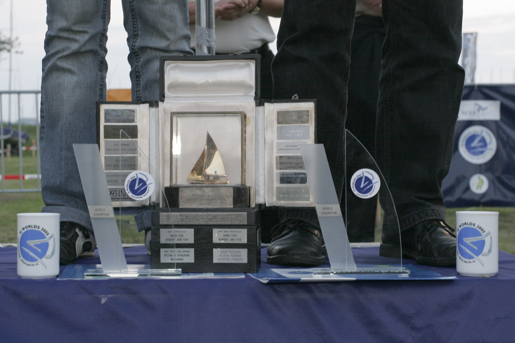 World Championship Trophy of the International Flying Junior Class